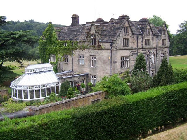 Maer Hall. Taken from the churchyard